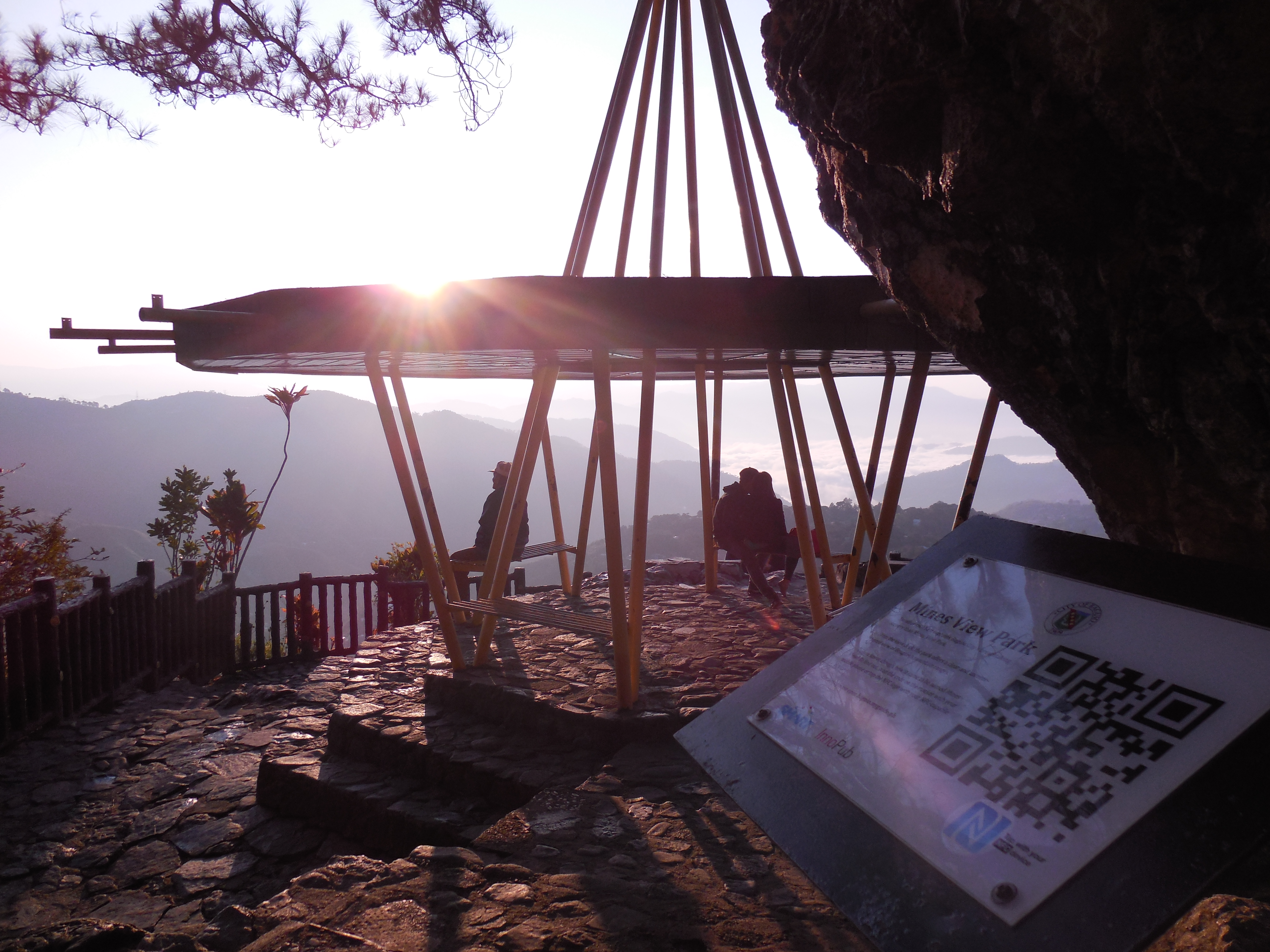 The view deck at Mines View Park in Baguio City during sunrise.